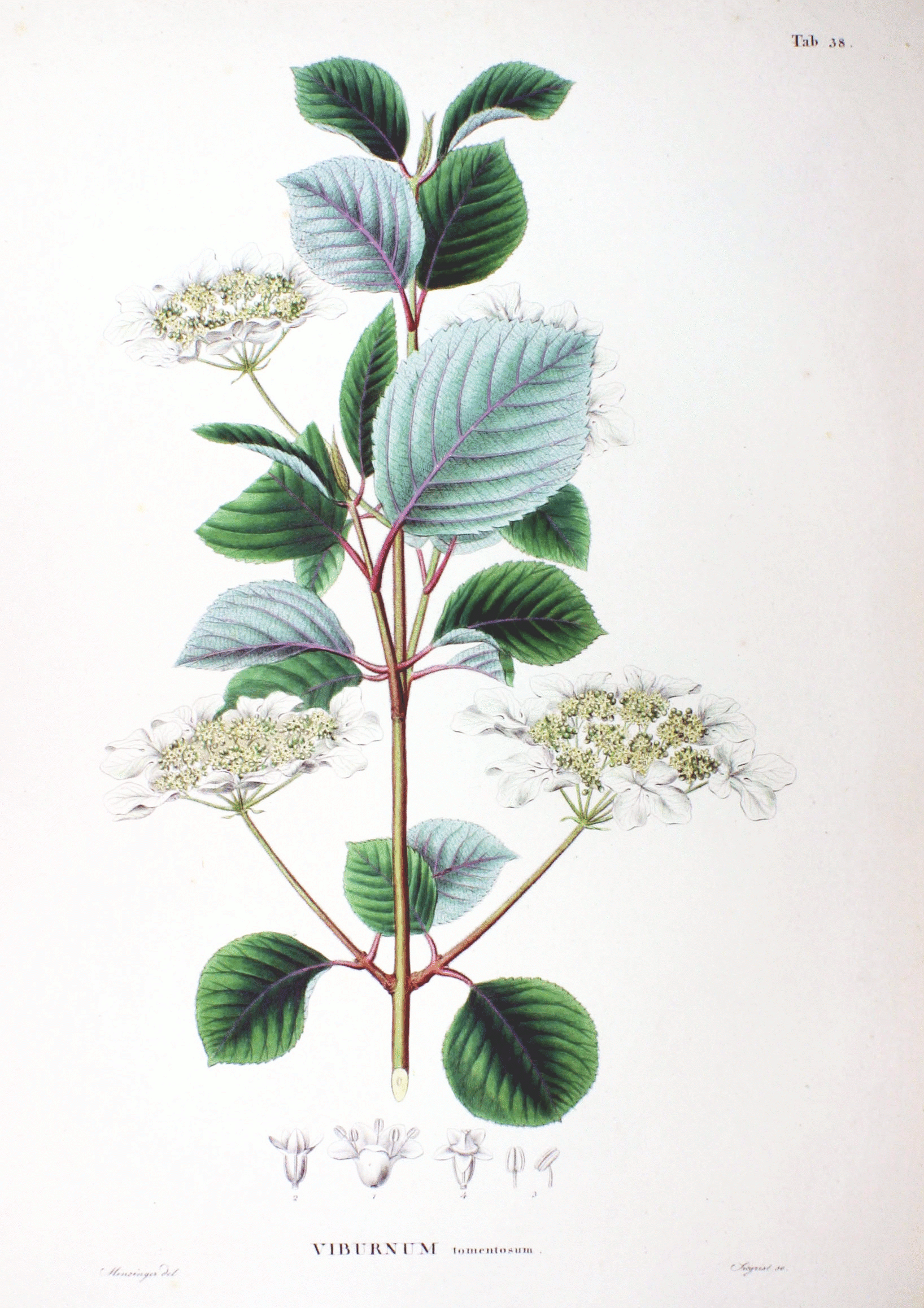 Plate from book